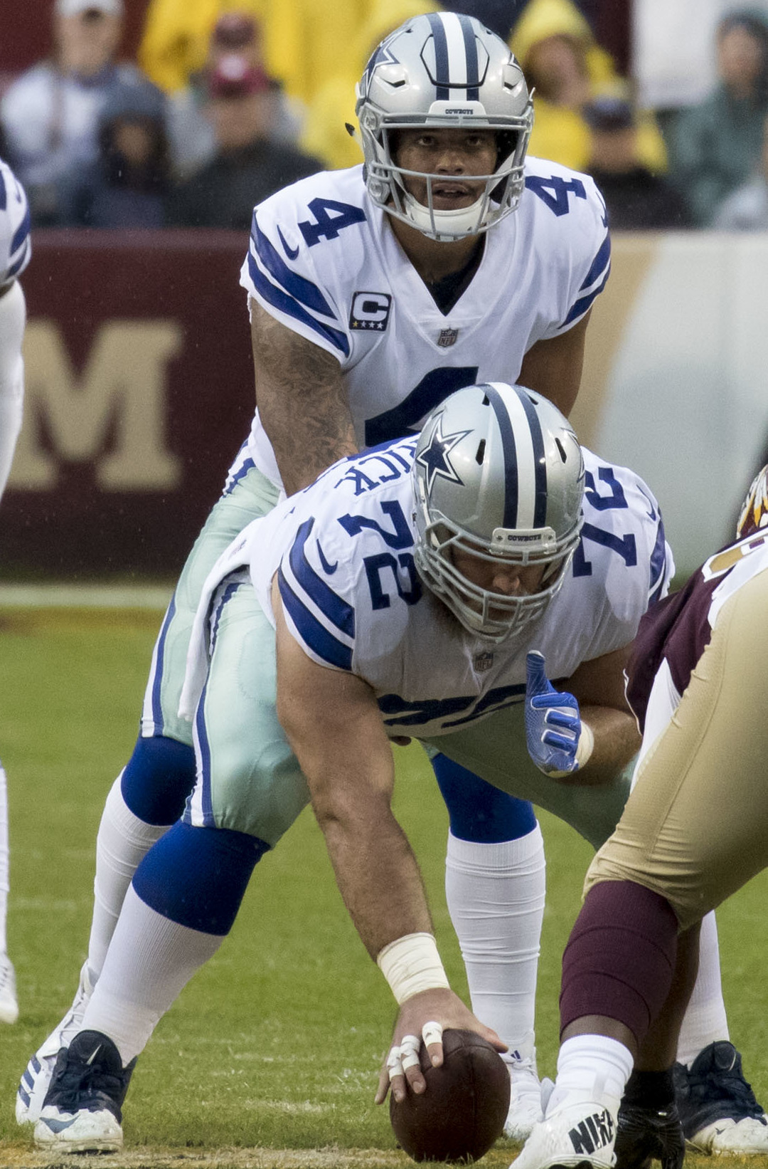 Cowboys at Redskins 10/29/17